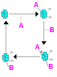 A somewhat simplified illustration of the phosphorylation/dephosphorylation cycle of the kaiC protein that is believed to generate the circadian clock signal in cyanobacteria.